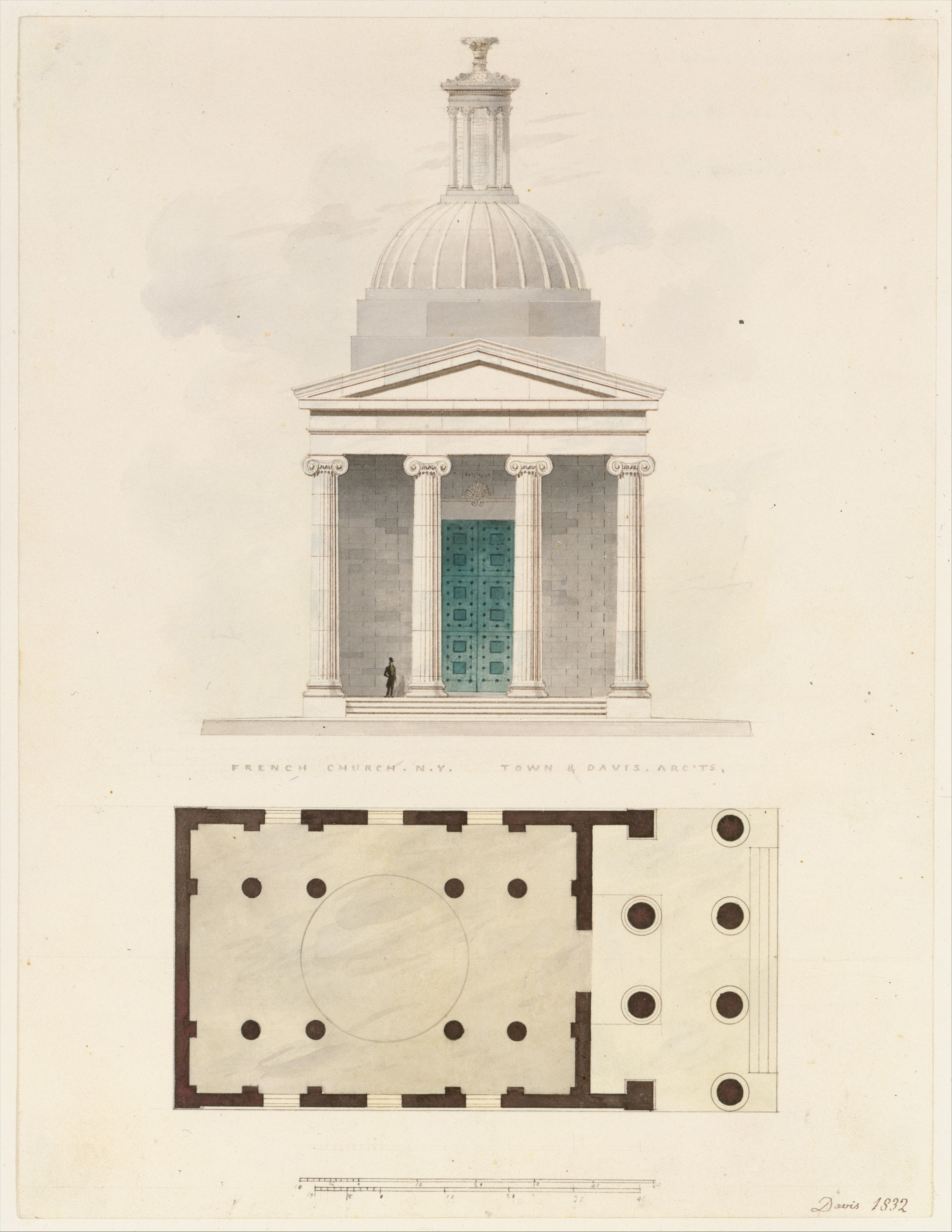 Drawing Ornament & Architecture; Drawings